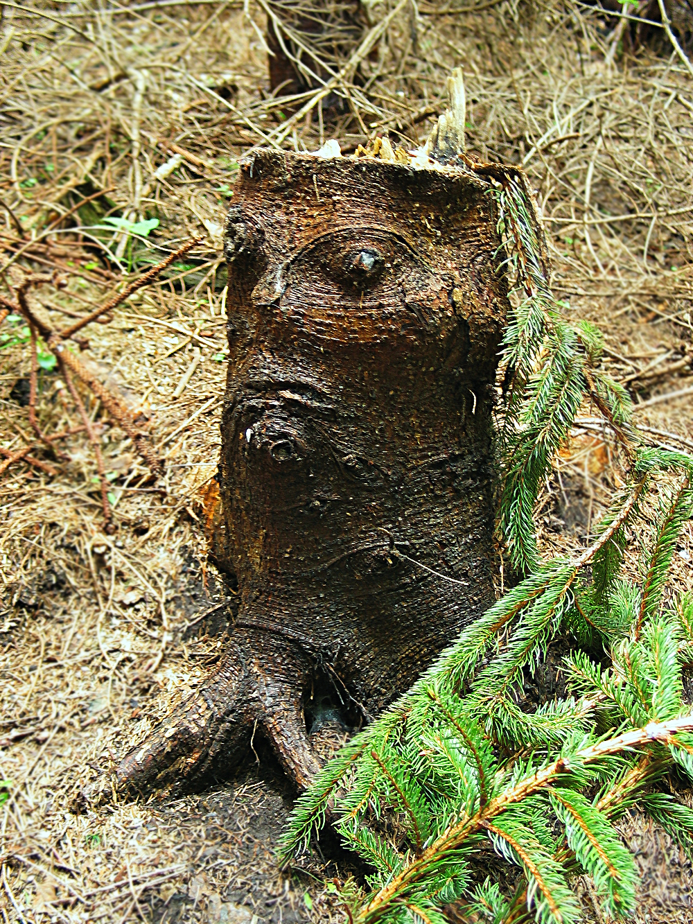 tree stump with an "face"